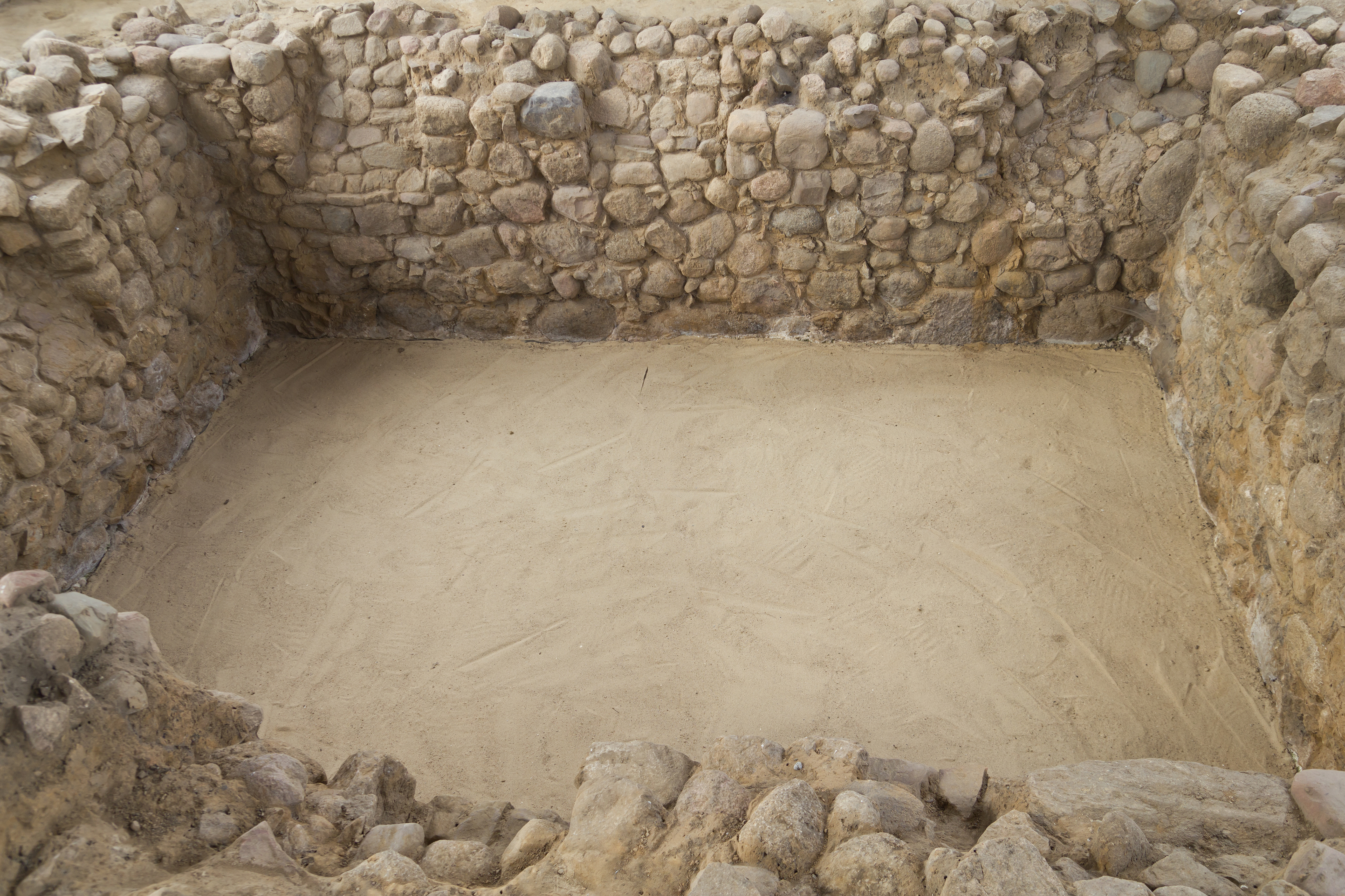 Archaeological Park Freyenstein, Brandenburg, Germany.